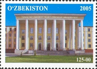 A stamp of Uzbekistan, 2005. It depicts the building of Tashkent University of Information Technologies.